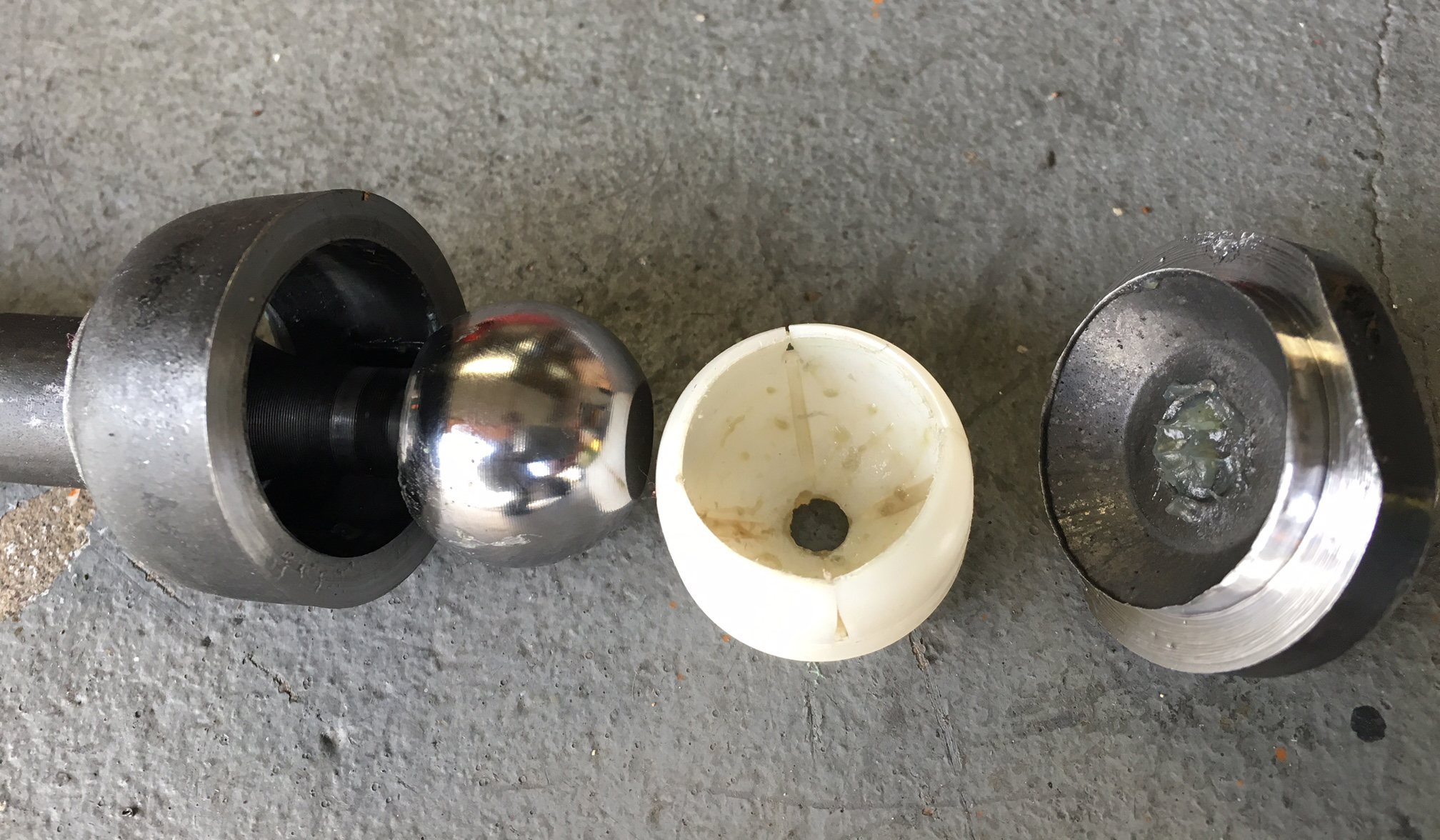 Inner Tie Rod Ends cut open to show ball joint inside. EV303 1993-2002